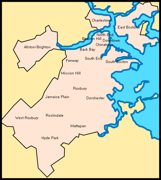 Map of neighborhoods in Boston.